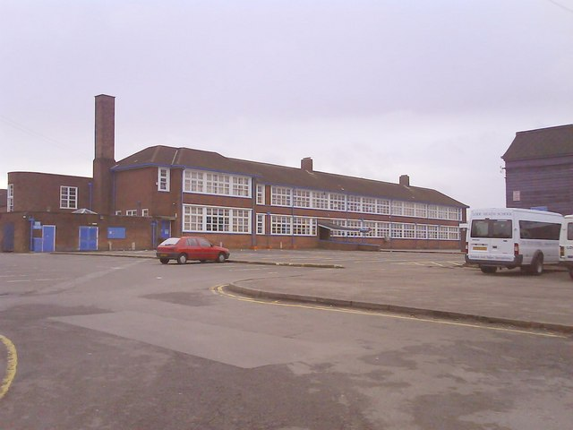 Lode Heath School